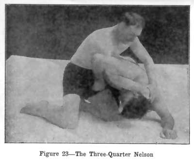 Three-quarter Nelson as illustrated the scan of Figure 23 in Lessons in Wrestling & Physical Culture.